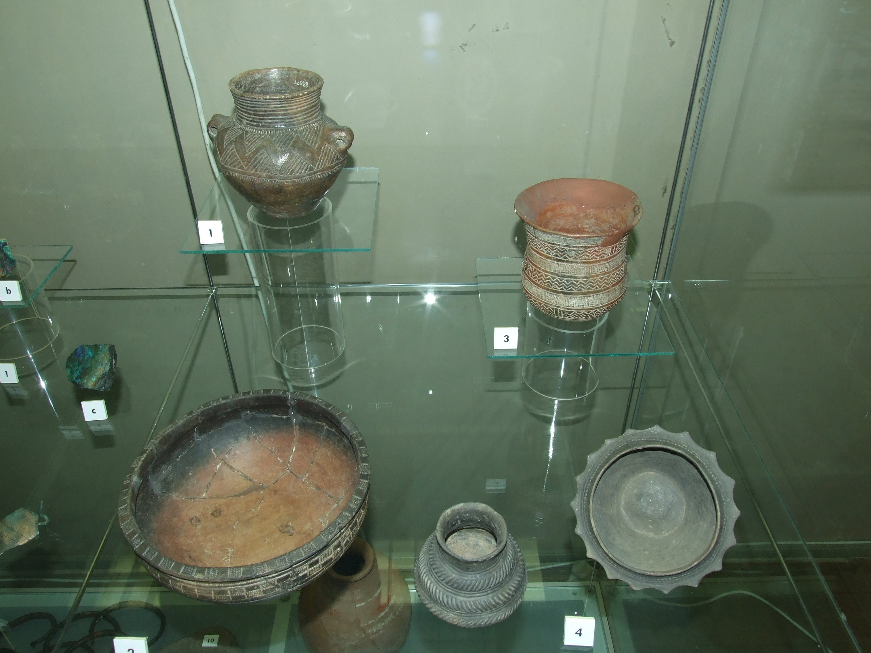 Prehistoric Times of Bohemia, Moravia and Slovakia, National Museum in Prague. Pottery Amphora (Eneolithic; culture with cord-marked pottery; 2800 - 2400 BC) Dish (Eneolithic; culture with bell-beaker pottery; 2400 - 2200 BC) Beaker (Eneolithic; culture with bell-beaker pottery; 2400 - 2200 BC) Collection of vessels (Migration Period; 5th century AD)